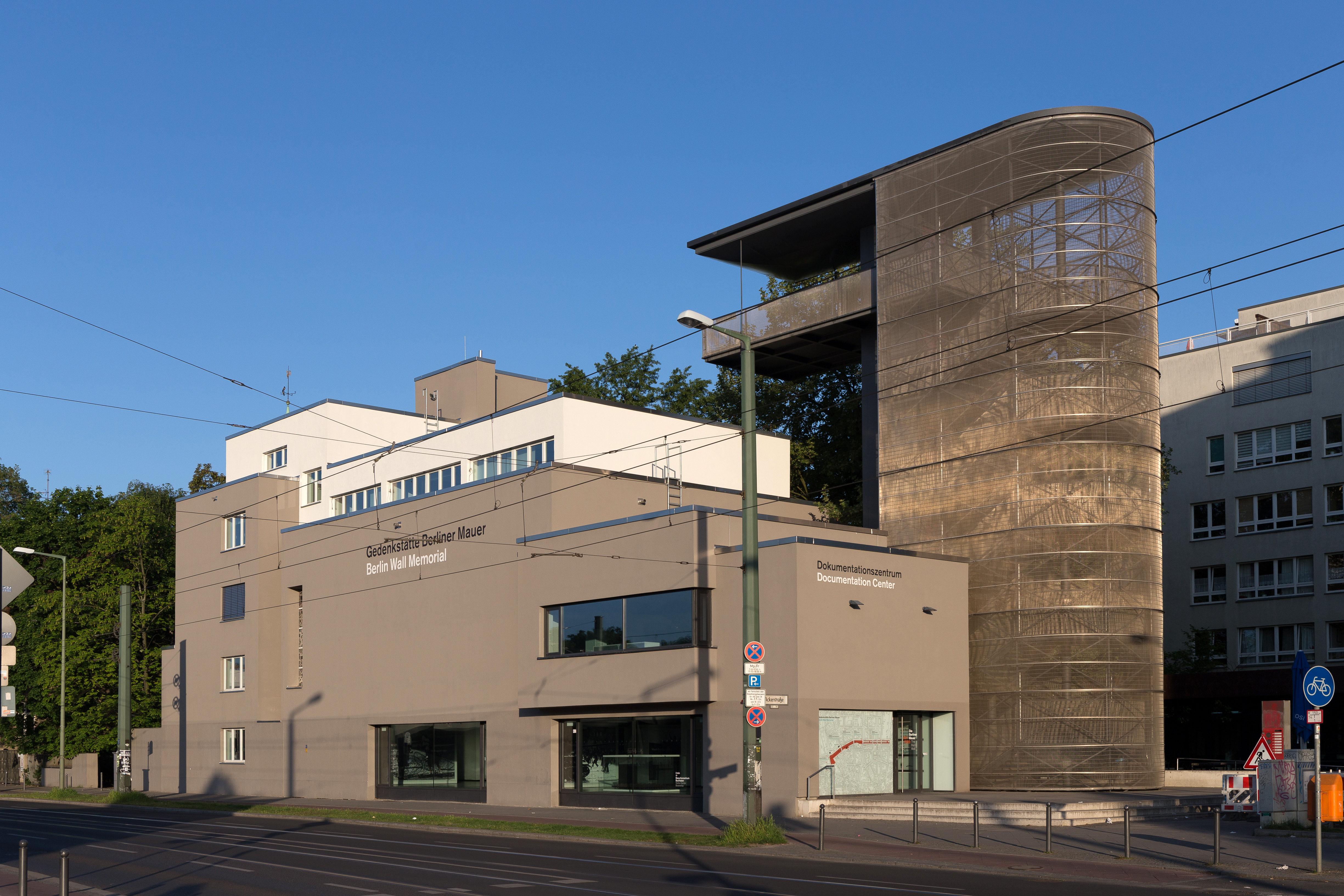 Berlin Wall Documentation Center at Bernauer Strasse in Berlin-Mitte.